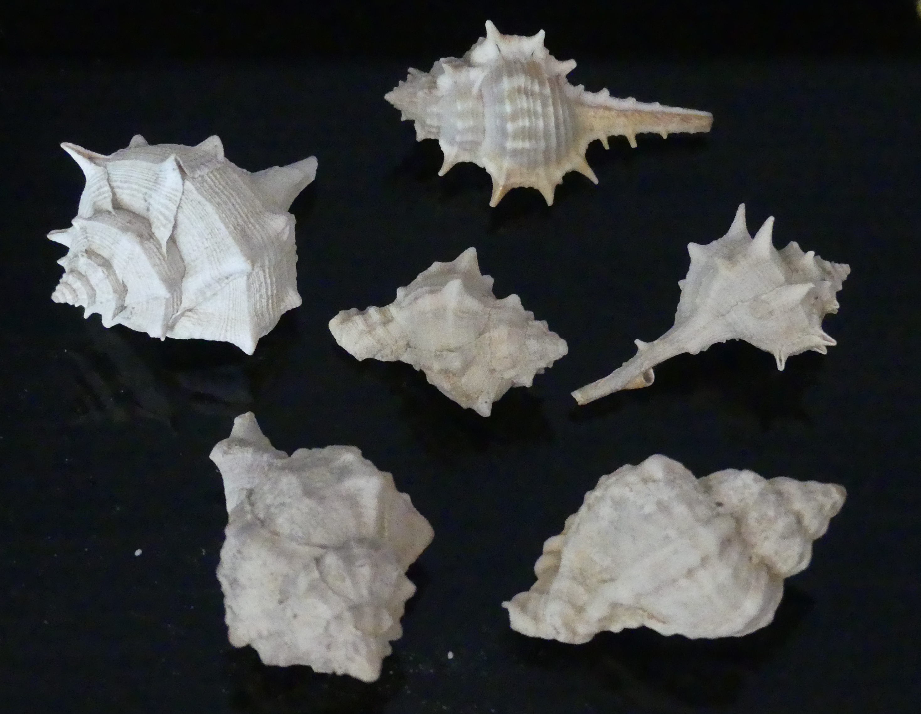 Murex (trunculus and brandaris) shells on display in the lobby of the Murex Hotel in Tyre/Sour, Southern Lebanon. In ancient history, Tyre was famous for producing Tyrian purple, gained from the shellfish, after which the hotel is named.